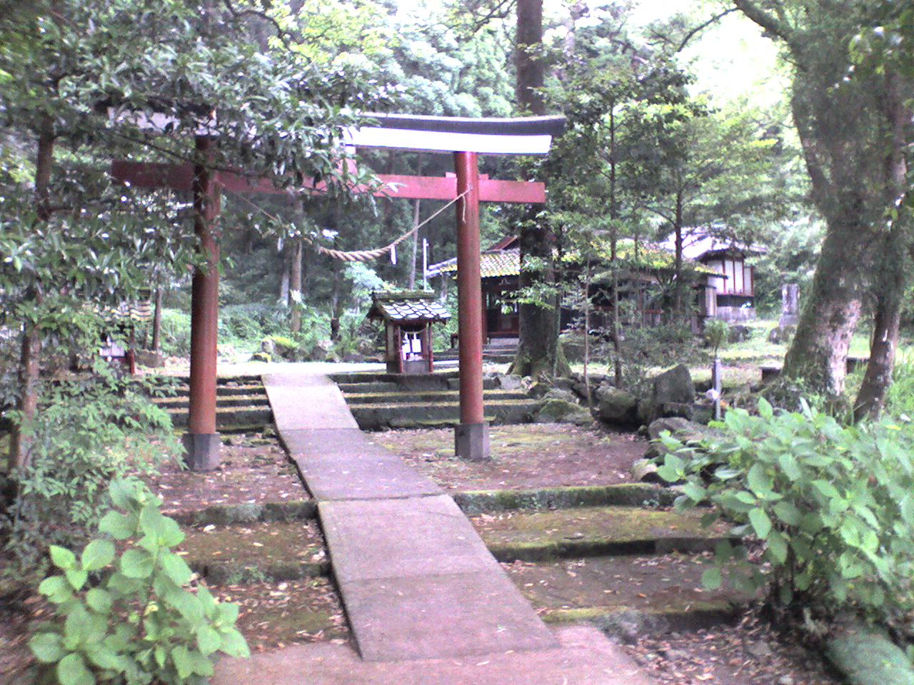 Hiruko Shrine (Shinto Shrine) at Kirishima City, Kagoshima, Japan